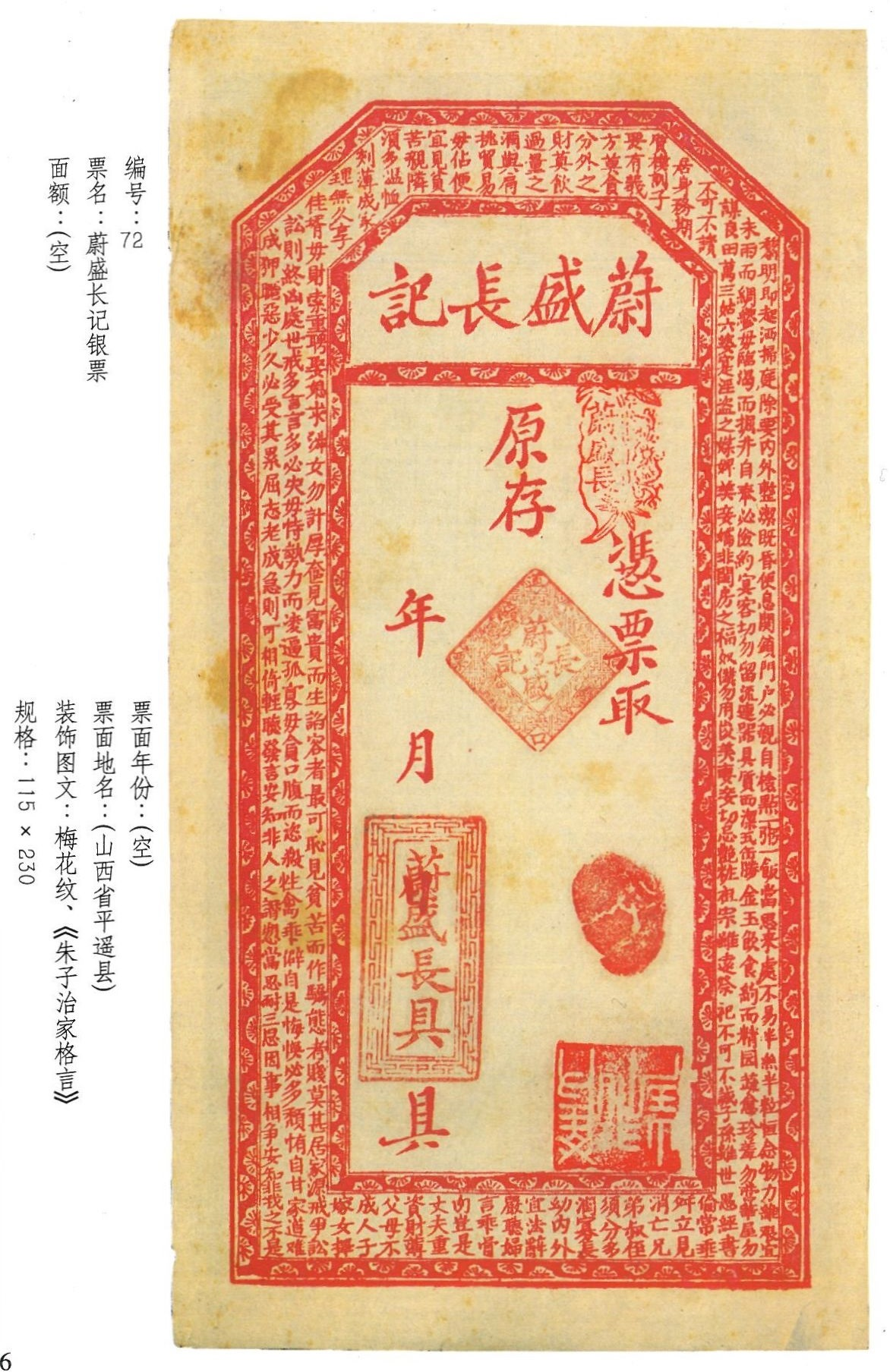 A banknote issued by a Shanxi Bank from the website ChinaKnowledge.de.